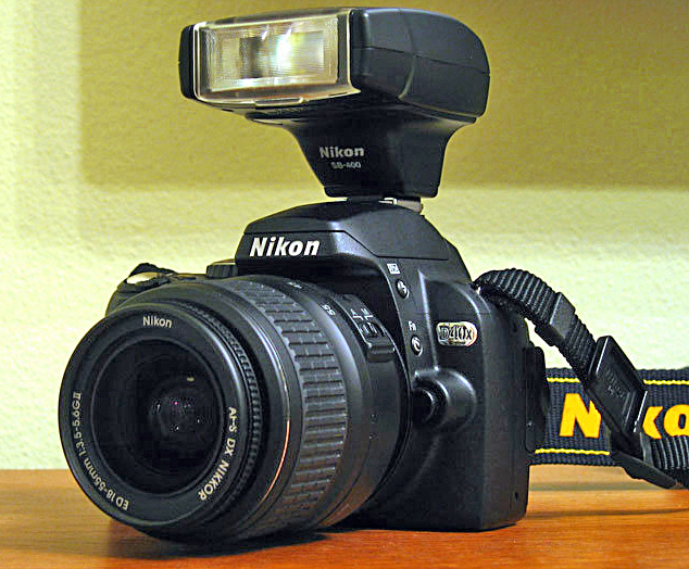 Image of a Nikon D40x Digital SLR camera with the 18-55mm kit lens and an external SB-400 flash